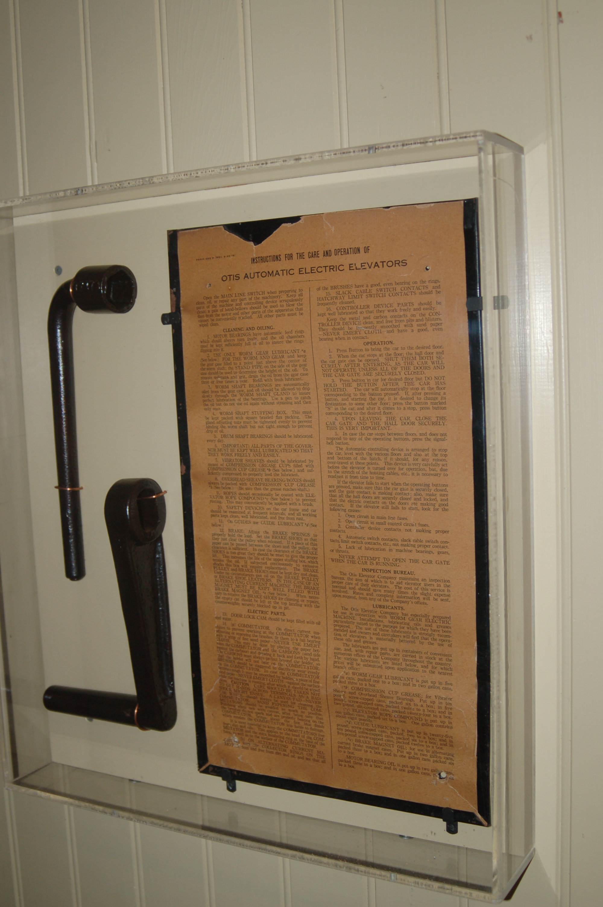 Otis elevator instruction sheet